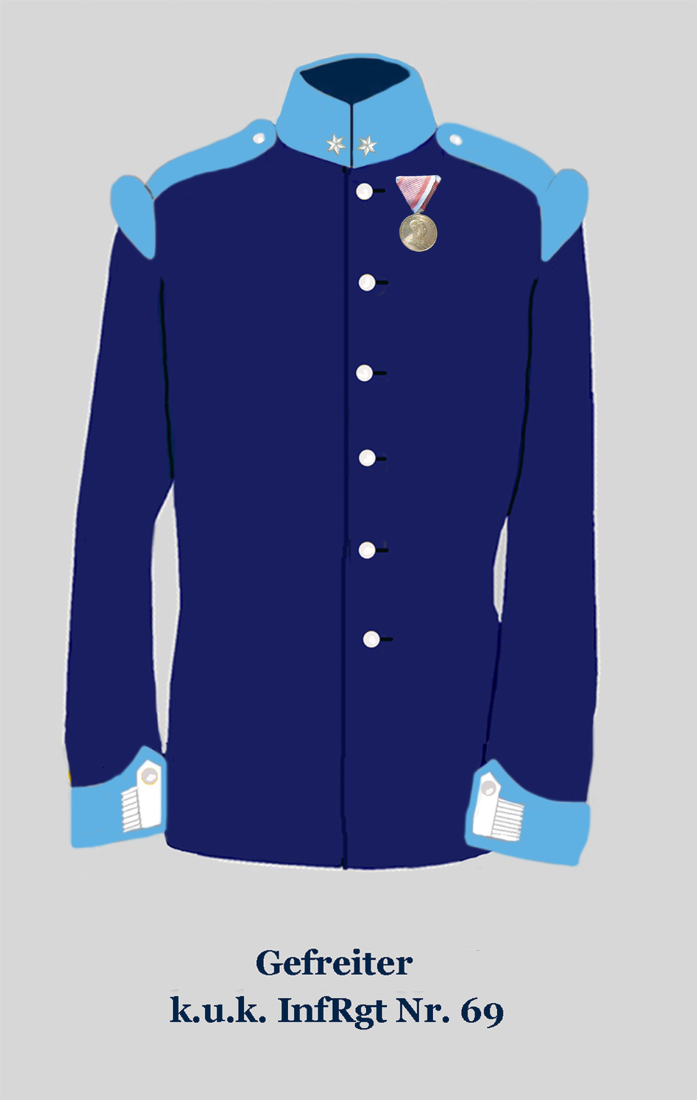 Private 1st class in the k.u.k. hungarian 69th Infantry Regiment (Collar pike-grey, buttons white)